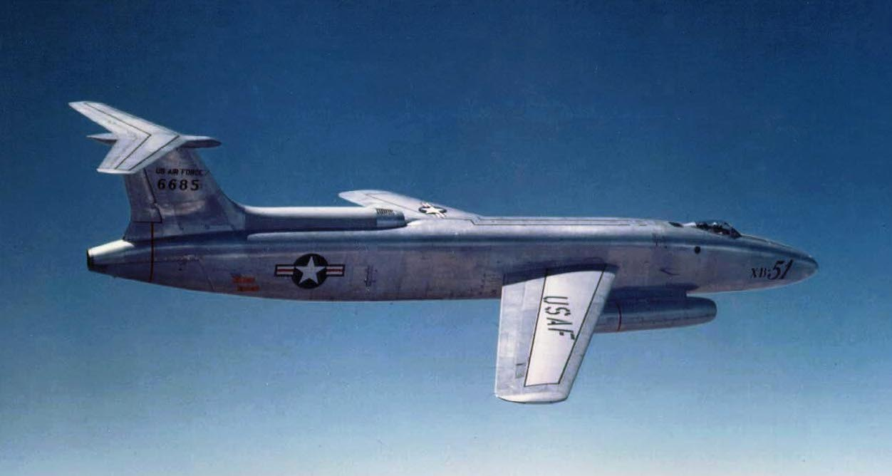 The Martin XB-51 was an unusual ground-attack plane, and one of the most highly advanced aircraft at the time of its first flight in 1949. Two jet engines were carried in pods near the nose and a third was buried aft under the tail. The pilot could vary the thin wing's angle of incidence in the air, making takeoffs and landings easier. The variable-incidence wing allowed a very long fuselage which carried two bomb bays, all fuel tanks, and the bicycle-style landing gear. Spoilers on each wing replaced conventional ailerons, allowing the use of full-span flaps for safer landings. The XB-51 was fast, maneuverable, and delightful to fly, but it lost an acquisition competition to the British-designed B-57 Canberra. The sister ship to the plane in the photo was destroyed in a crash on the dry lake bed in May 1952.